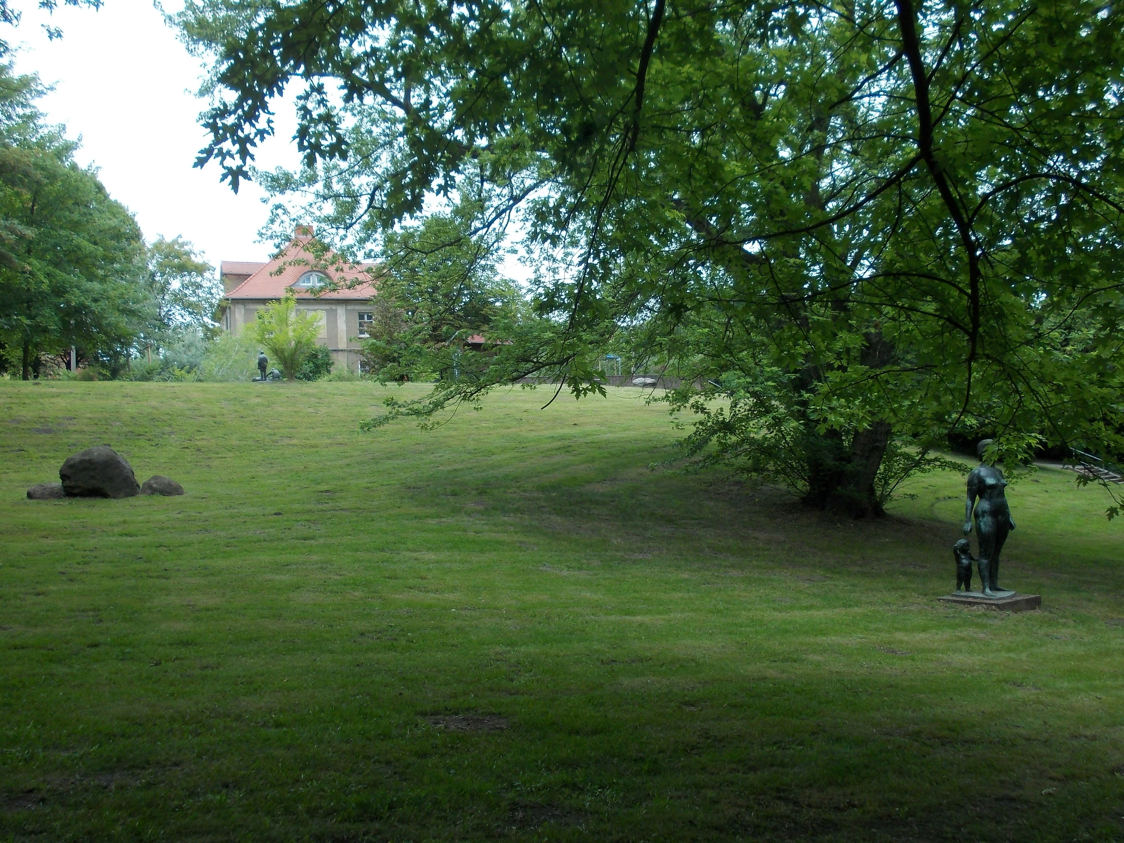 Sculpture Park in Leuna (district: Saalekreis, Saxony-Anhalt)